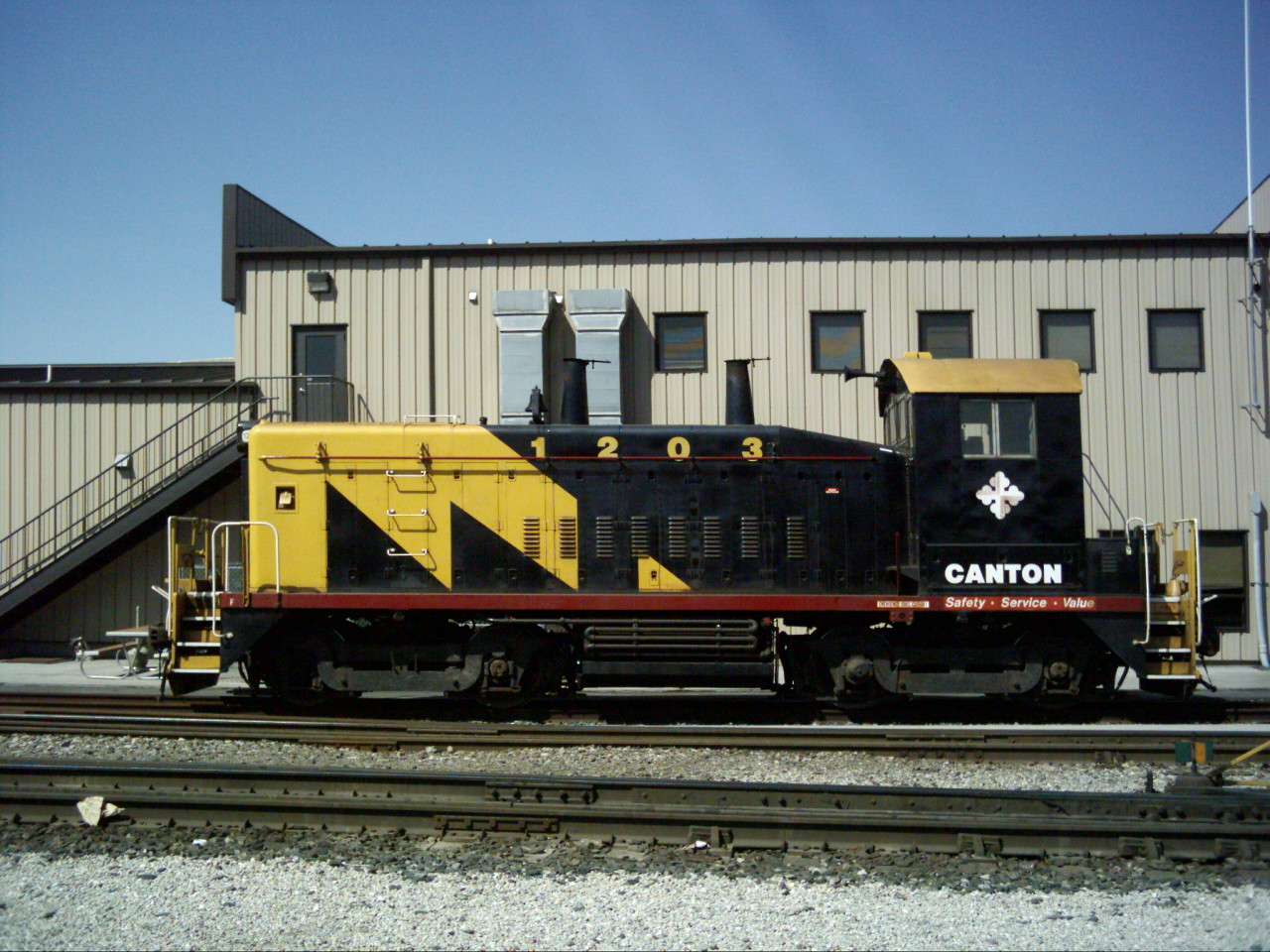 Photograph of Canton Railroad CTN 1203, an Electro-Motive SW1200 diesel-electric locomotive in Baltimore, Maryland, serving local shipping companies around the Helen Delich Bentley Port. Canton Railroad locomotives are painted yellow and black, similar to the Maryland and Baltimore livery.